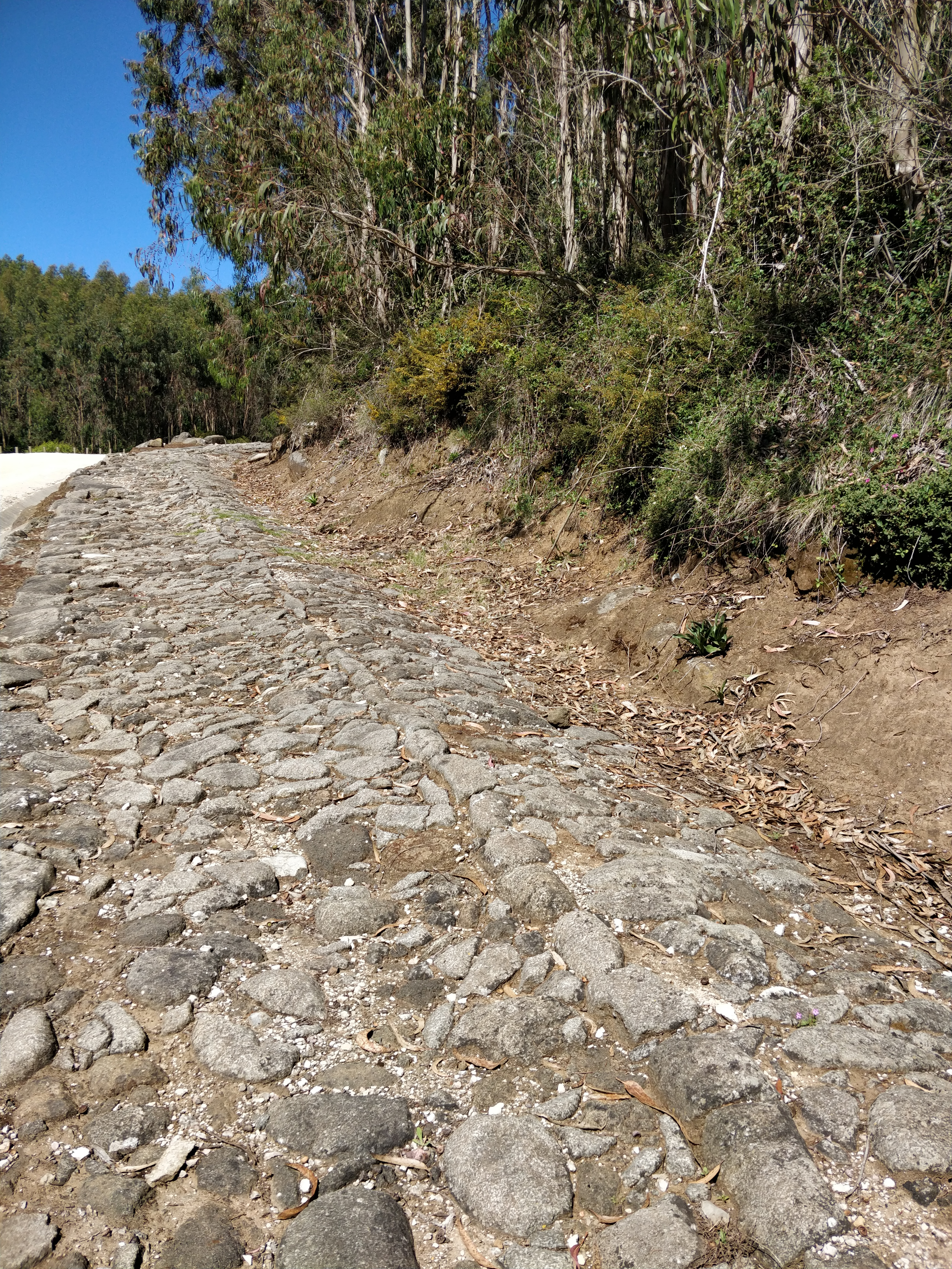 Fort of Alqueidão. Original approach road built in 1809-10 during the Peninsular War